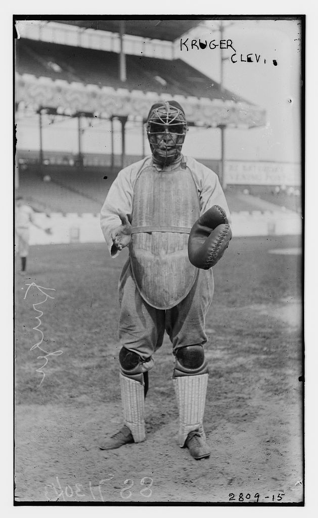 Bain News Service,, publisher. Ernie Krueger, Cleveland AL, at Polo Grounds, NY (baseball)] [1913] 1 negative : glass ; 5 x 7 in. or smaller. Notes: Original data provided by the Bain News Service on the negatives or caption cards: Kruger, Cleve. Corrected title and date based on research by the Pictorial History Committee, Society for American Baseball Research, 2006. Forms part of: George Grantham Bain Collection (Library of Congress). Format: Glass negatives. Repository: Library of Congress, Prints and Photographs Division, Washington, D.C. 20540 USA, General information about the Bain Collection is available at Persistent URL: Call Number: LC-B2- 2809-15